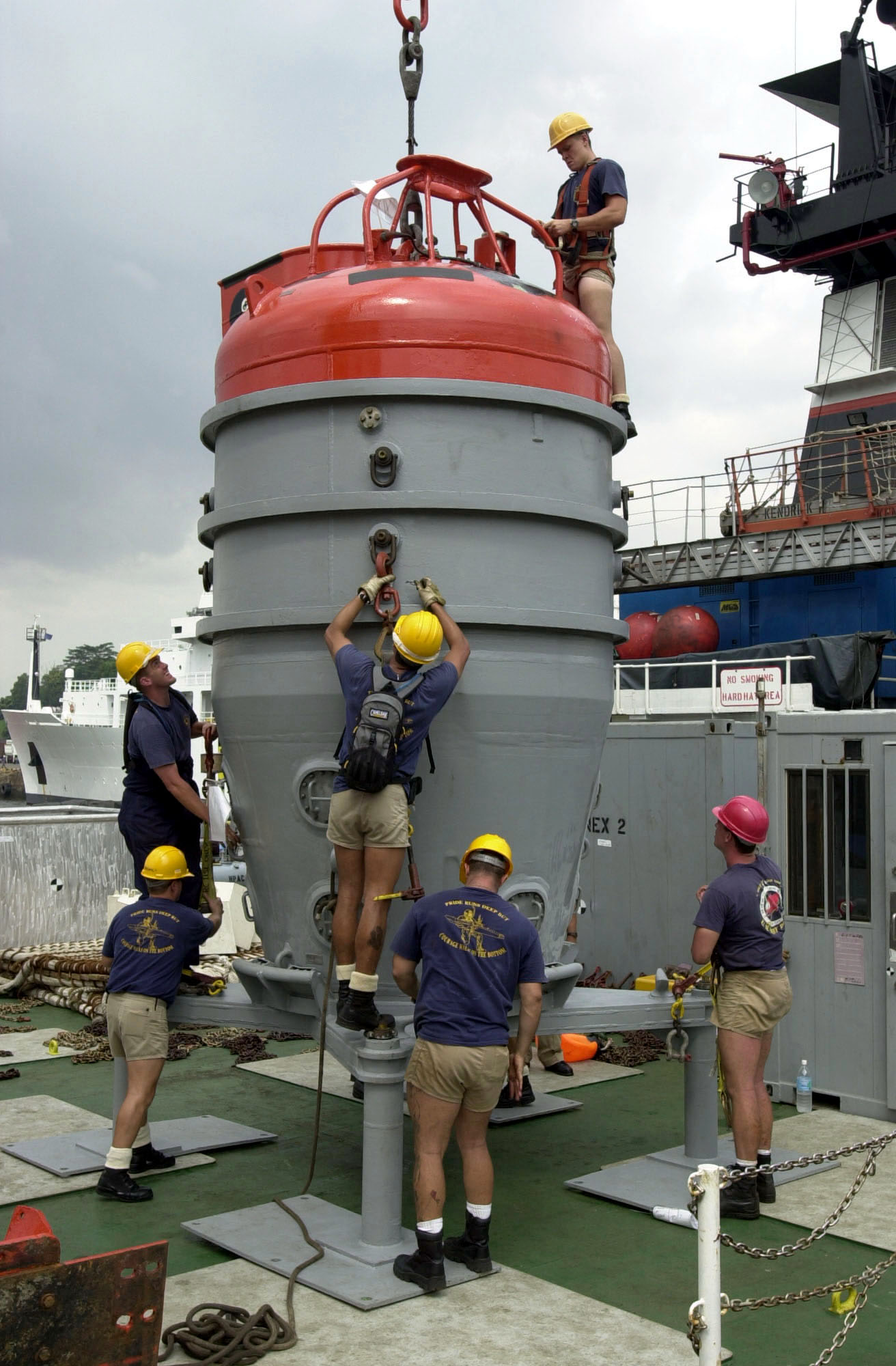 000929-N-1523C-002 OFF THE COAST OF SINGAPORE (September 28, 2000) -- Members of the U. S. Navy's Deep Submergence Unit Diving Systems Detachment secure the Submarine Rescue Chamber (SRC) aboard the MV Kendrick in preparation for "Exercise Pacific Reach." The Republic of Singapore Navy, the Japanese Maritime Self Defense Force, the Republic of Korea Navy and the U.S. Navy will participate in this first-ever cooperative regional submarine rescue exercise. U.S. Navy photo by Senior Chief Photographer's Mate Terry Cosgrove. (RELEASED)